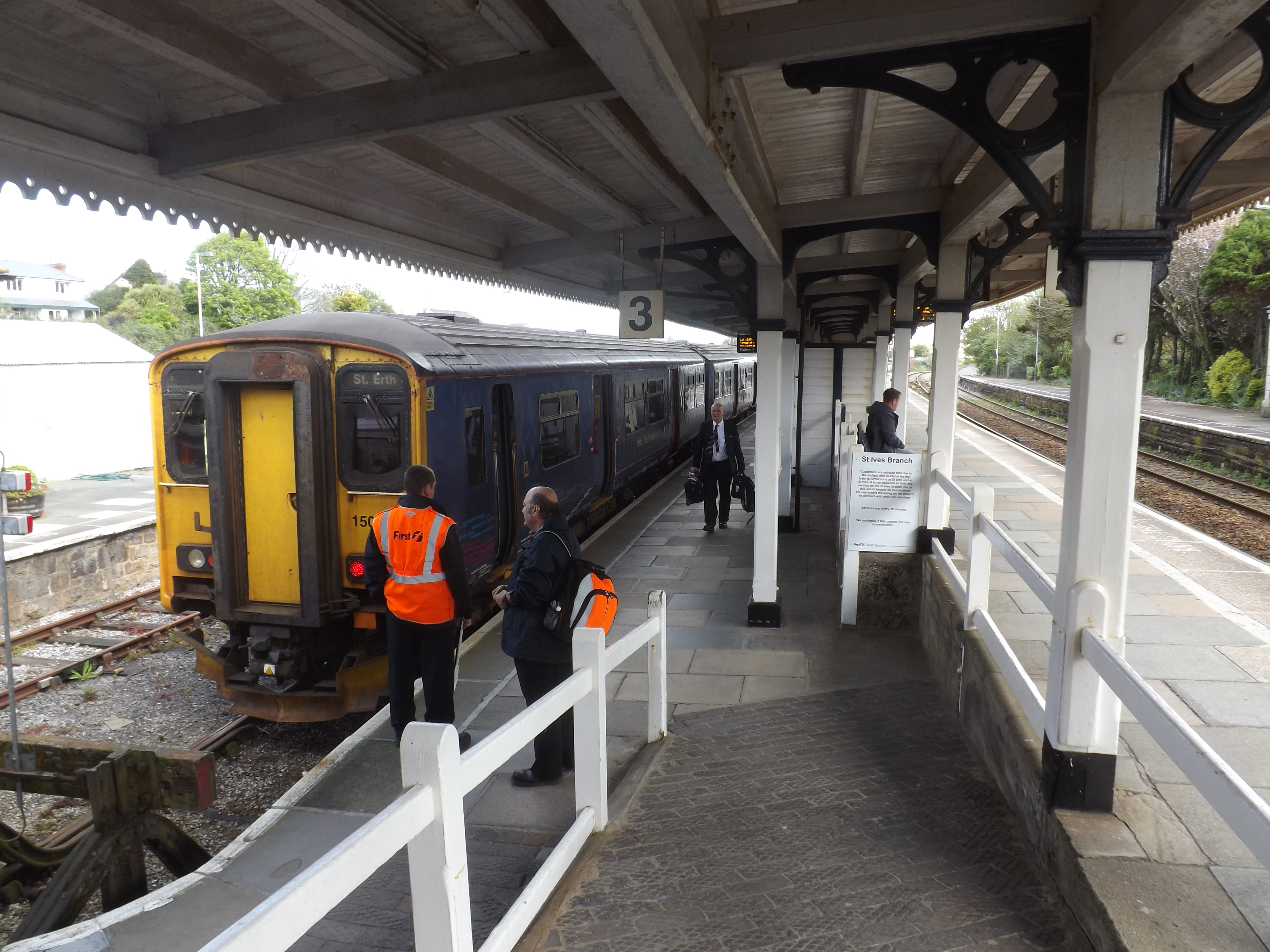 Photo date 6 May 2015